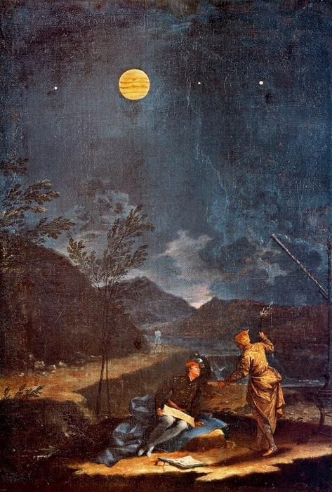 Part of the Astronomical Observations